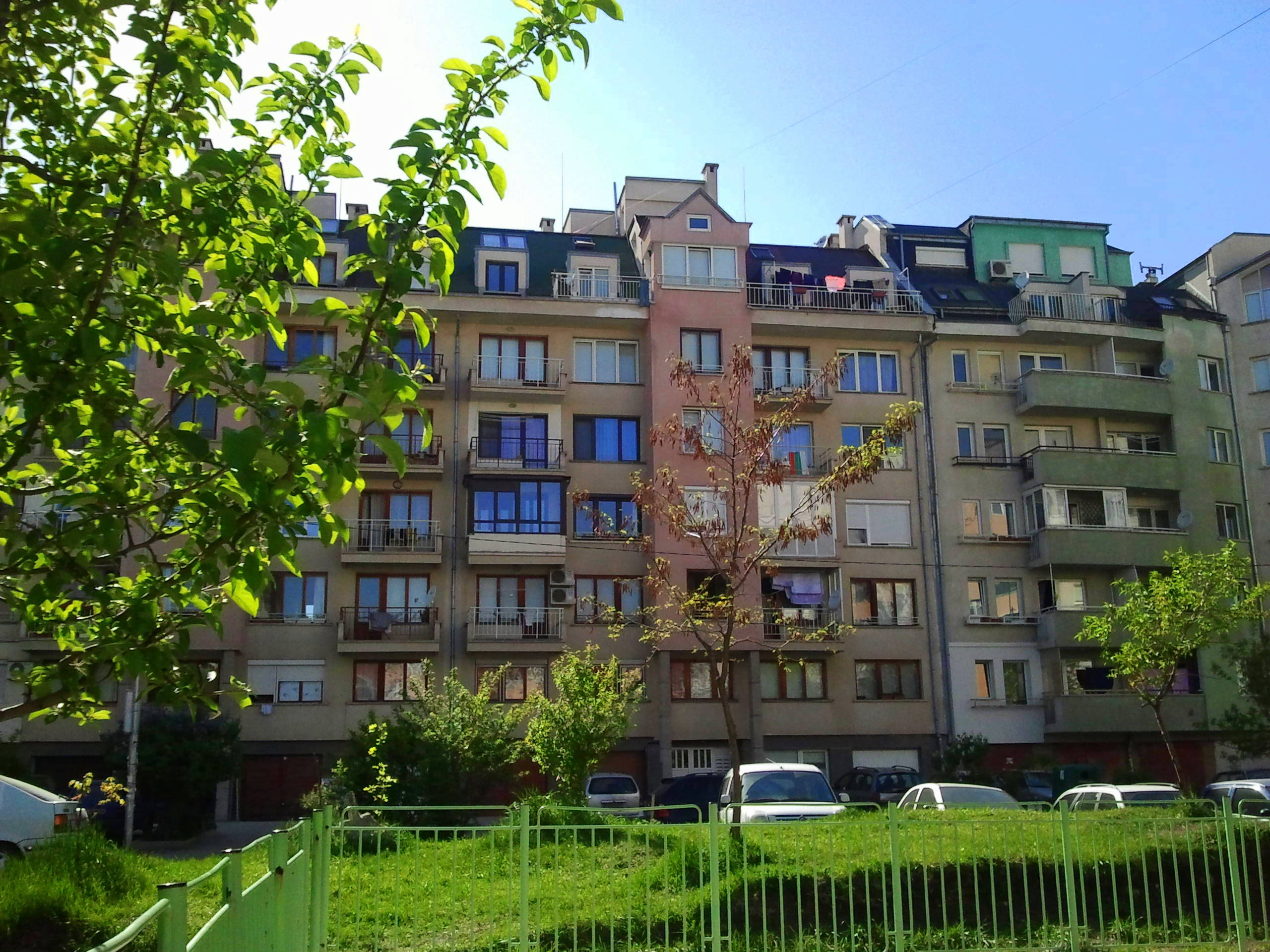 Appartment building in Mladost